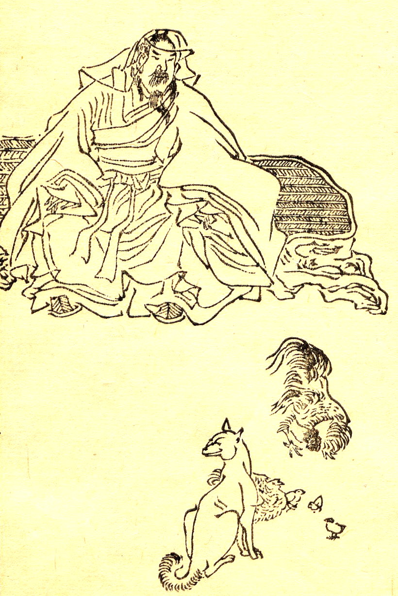 Ge Hong（葛洪）was a minor southern official during the Jin Dynasty (263-420), best known for his interest in Daoism, alchemy, and techniques of longevity.